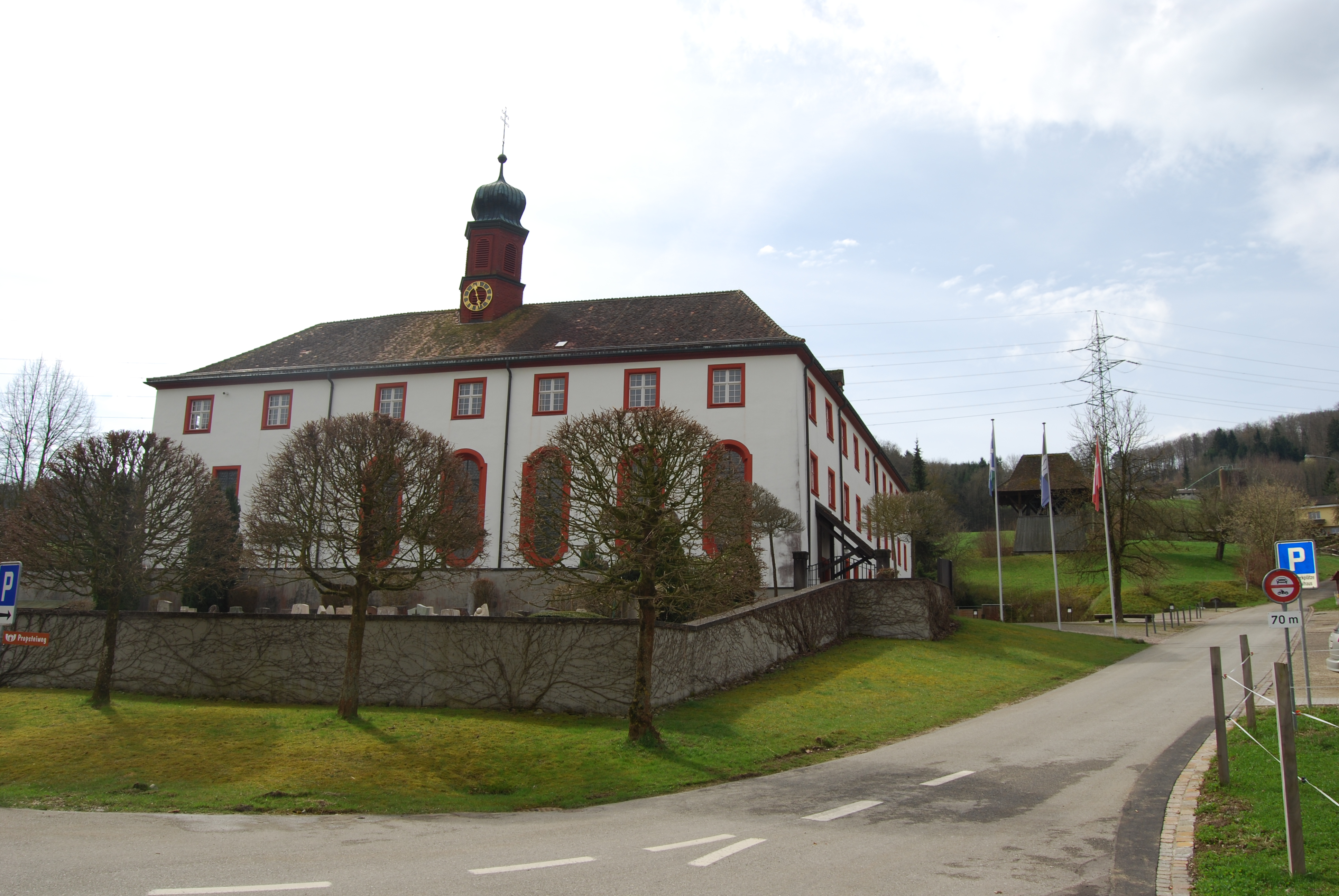 Abbey of Wislikofen, canton of Aargau, SwitzerlandEsperanto: Abatejo Wislikofen, Kantono Argovio, Svislando